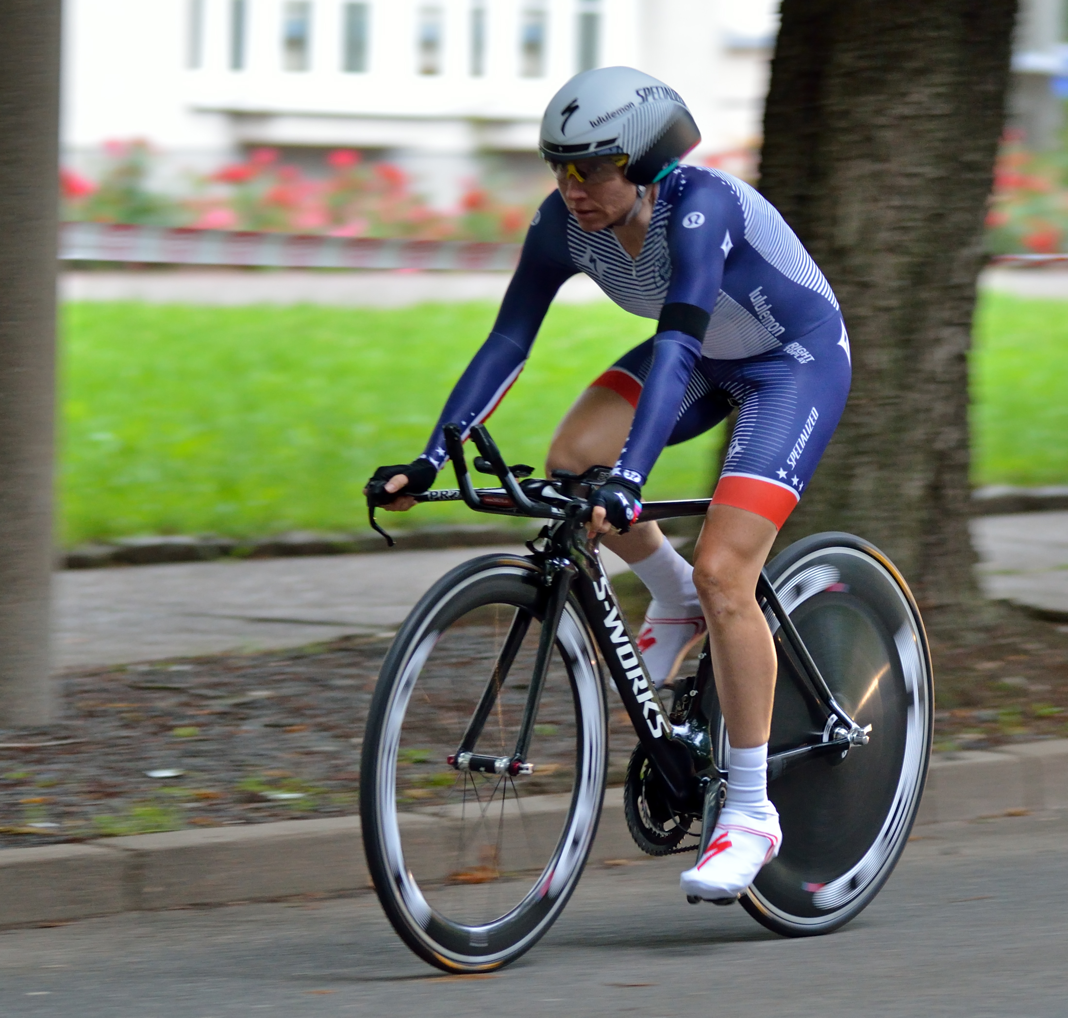 Amber Neben from the Specialized-lululemon team during the Women's Tour of Thuringia 2012 in Zwickau, Germany.